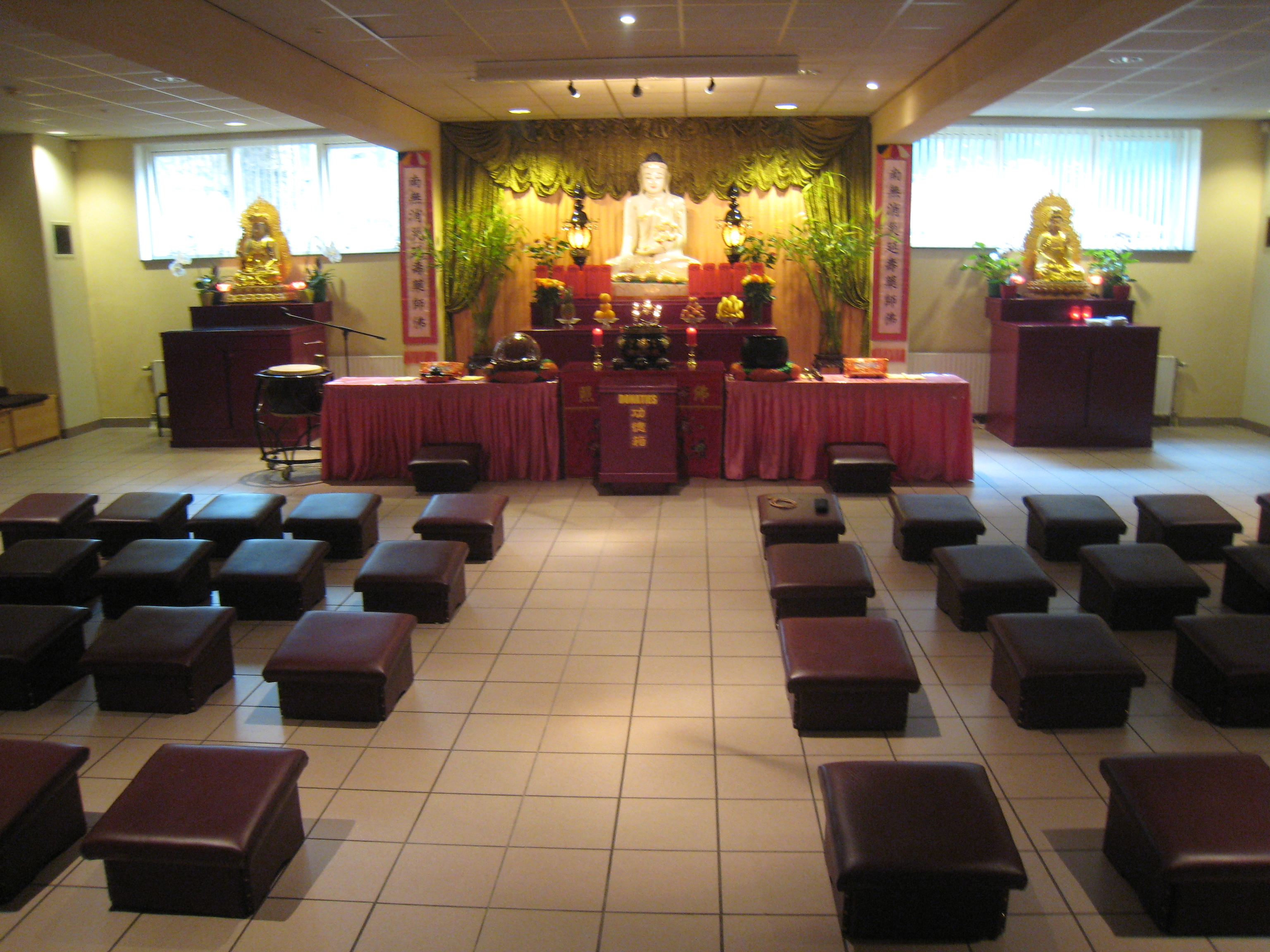 Jaden Boeddha zaal, He Hua tempel, Amsterdam